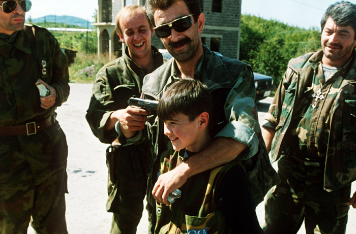 A Serb commander puts a gun to the head of his son as he and his friends joke around while waiting for a prisoner exchange near Sarajevo, summer of 1992.